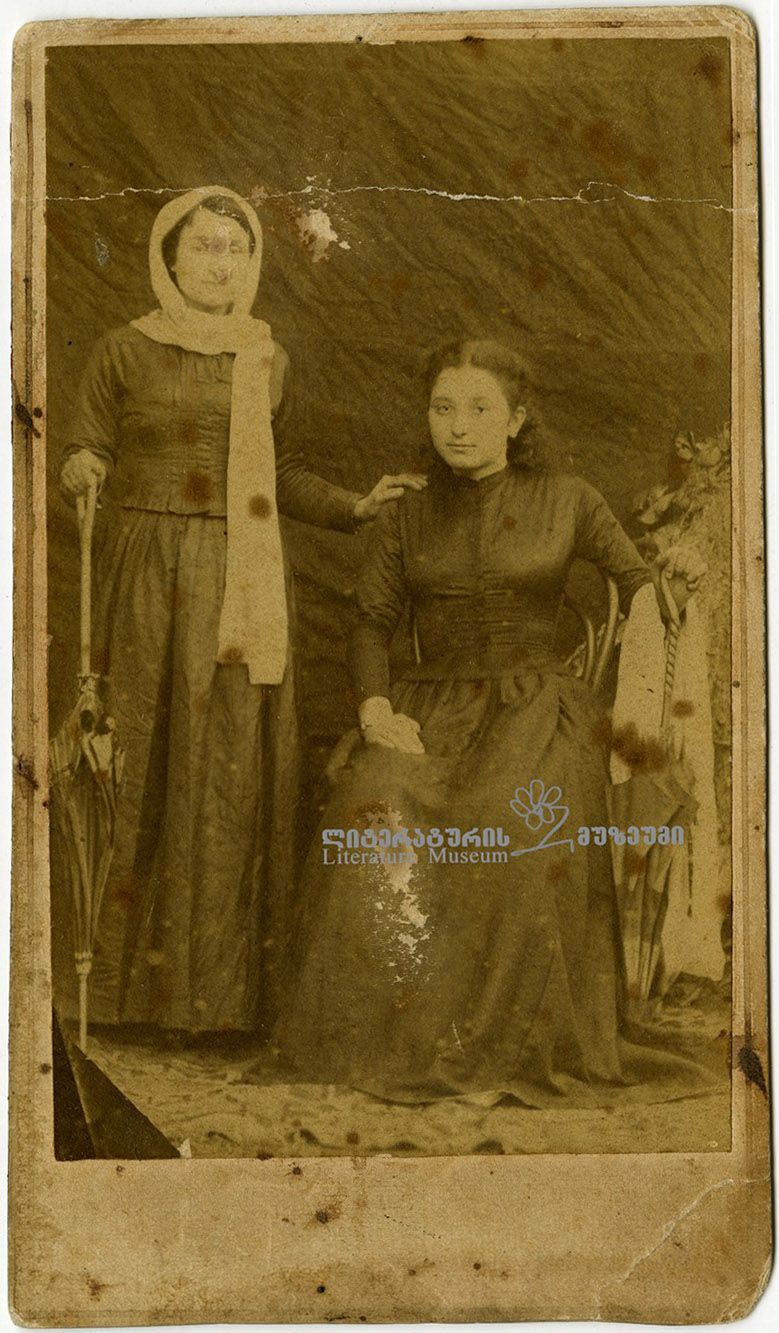 Sitting is Ivlita Lukava mother of Georgian poet Terenti Graneli with an unidentified woman